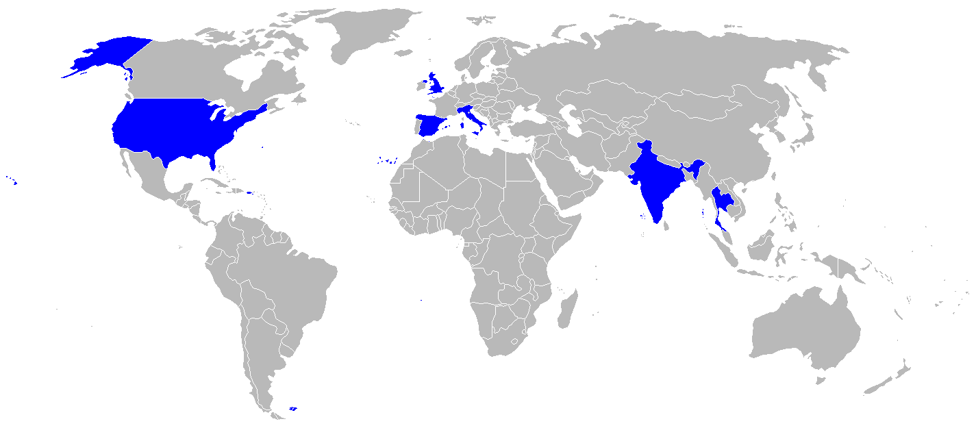 Military operators of the Harrier and Harrier II. Own work, derivative of File:BlankMap-World.png.